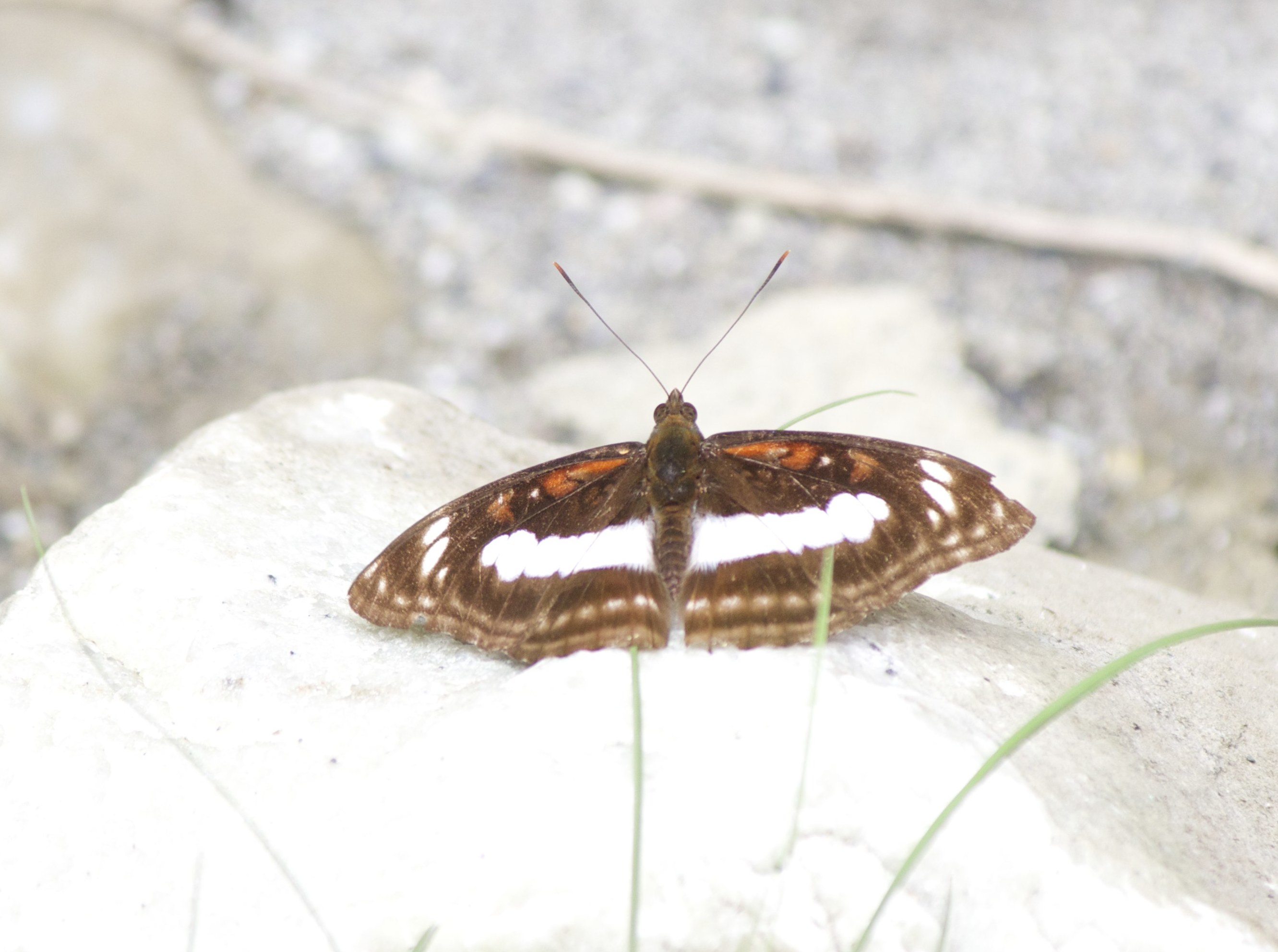 This image was taken in the project Wiki Loves Butterfly.Open wing position of Athyma cama Moore, 1857 – Orange Staff Sergeant